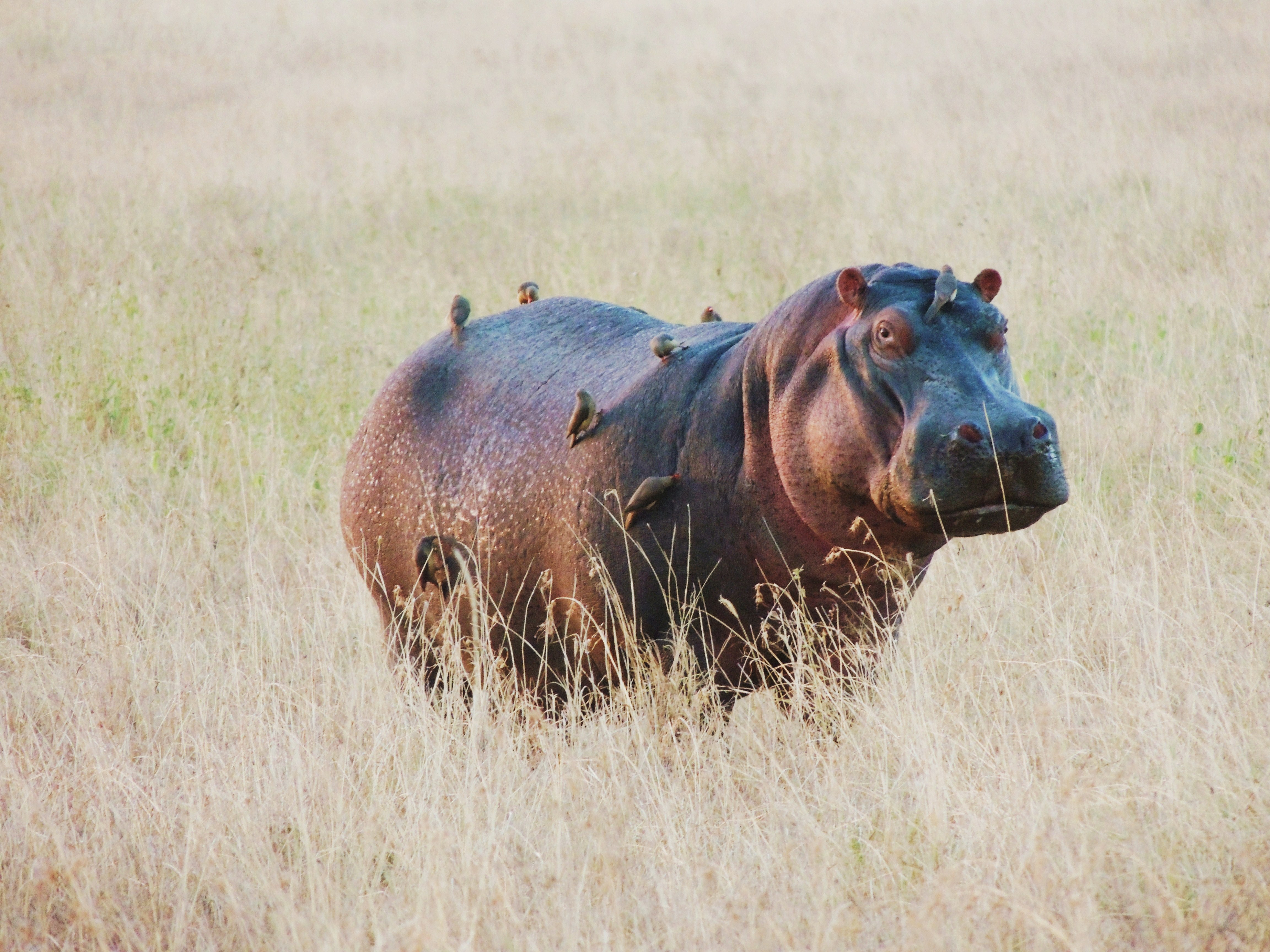 Hippopotamus amphibius - hippo and friends